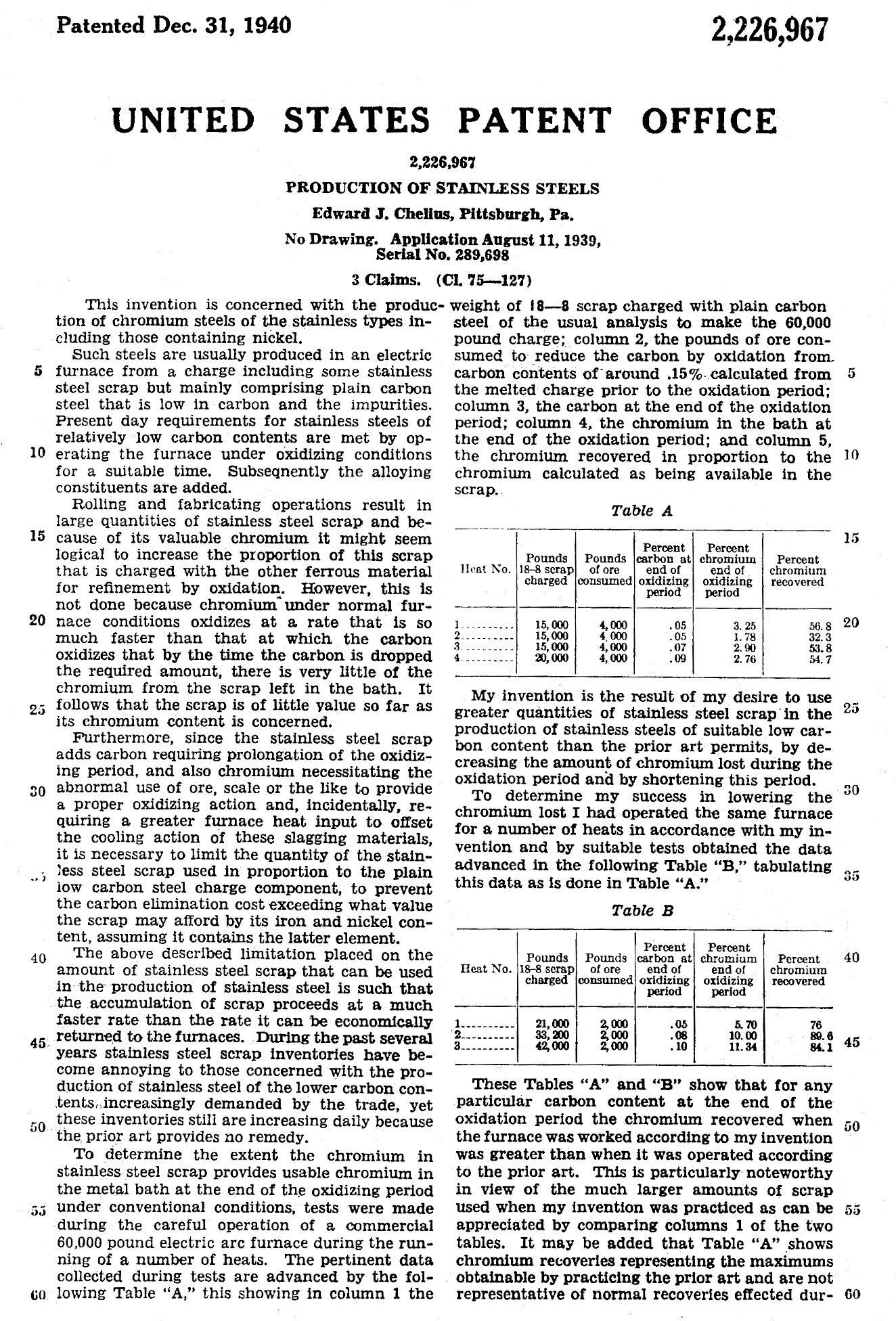 US patent of Edward J. Chellus, which apply basic oxygen process to stainless steel production.